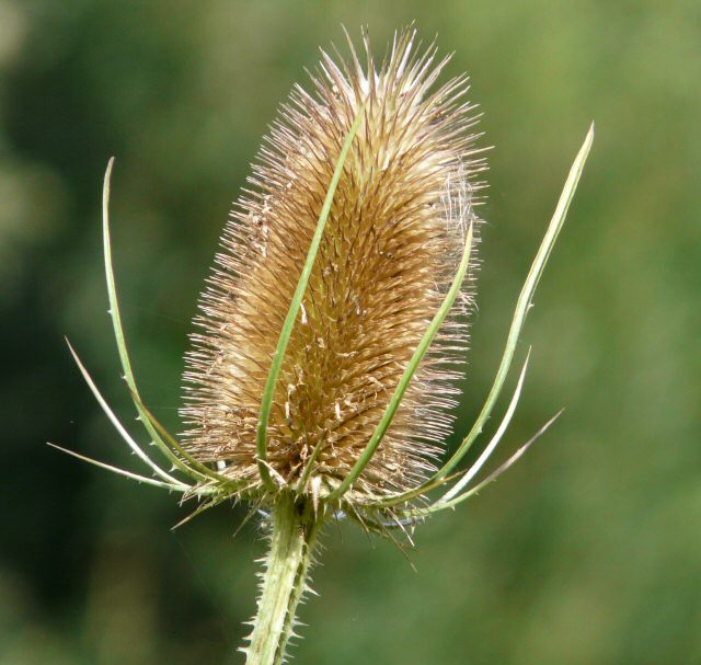 Teasel (Dipsacus fullonum). Closeup of one of the teasels on the Trans Pennine Trail 1454358.